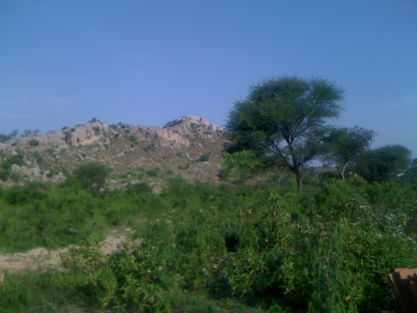 This is the picture of Karuli Village Mountain.